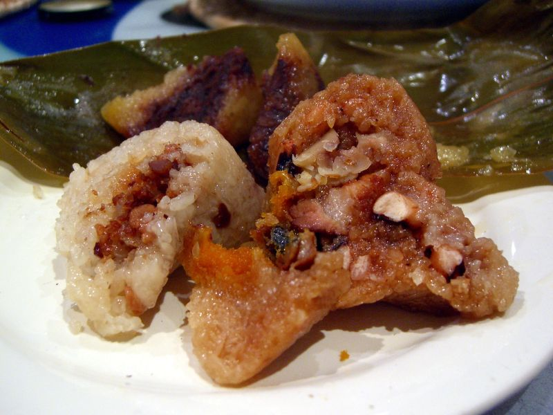 Alpha with Mum's 福建咸肉粽 Hokkien, 妞香粽 Nyonya and 豆沙 碱水粽 Red Bean 粽子Zongzi . Julia and I cut each zongzi in half to share, and to better take photos! :)